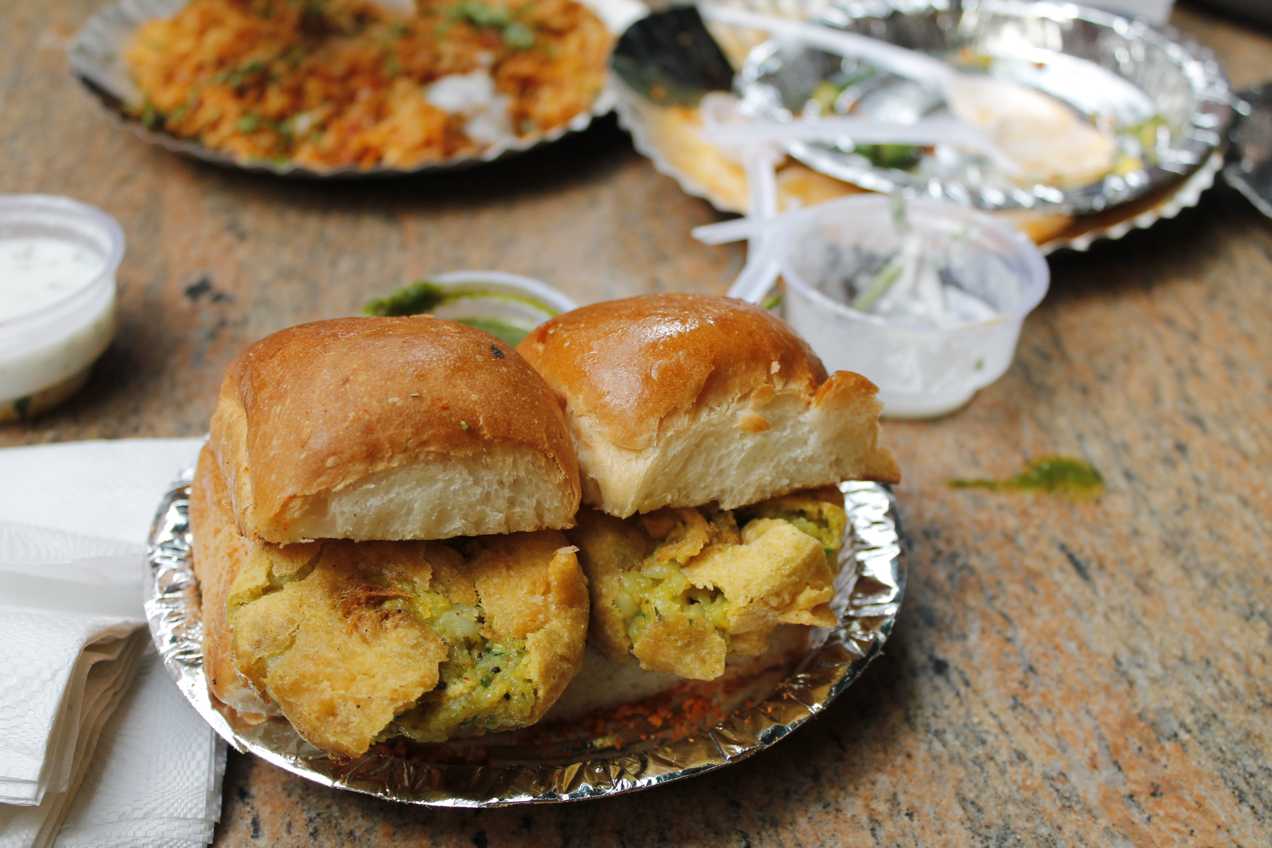 Famous Bombay Vada Pao @ Dilli Haat, New Delhi India